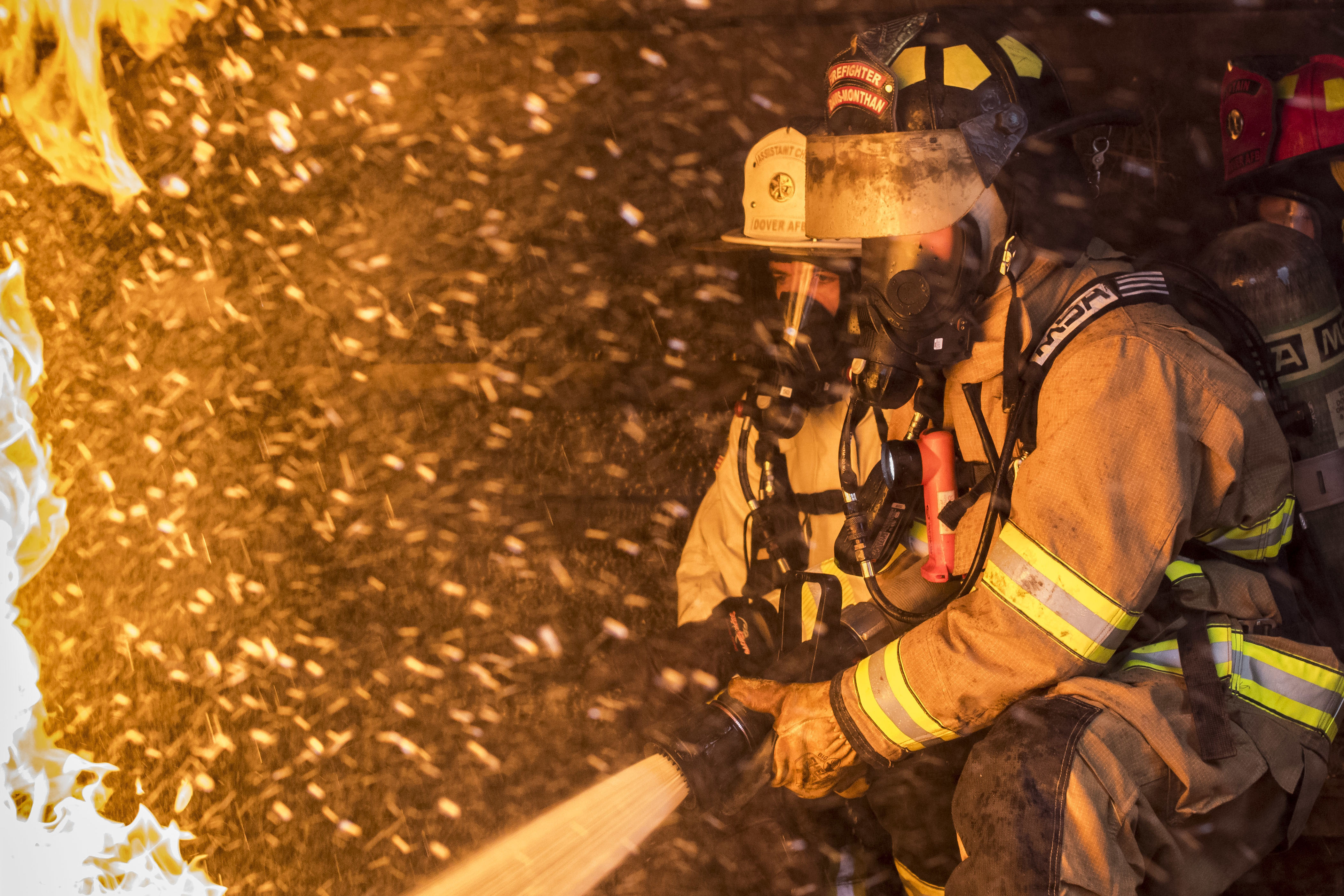 Senior Airman Daniel Kolk, 436th Civil Engineer Squadron driver operator, extinguishes flames in a controlled exercise at the structural burn training facility April 26, 2019, at Dover Air Force Base, Del. The firefighters train in a controlled environment while being monitored by other Dover firefighting professionals. (U.S. Air Force photo by Senior Airman Christopher Quail)